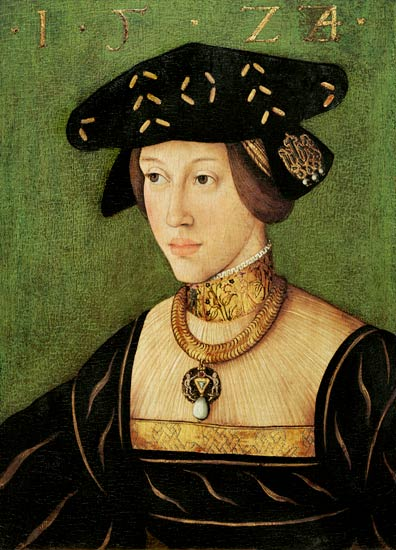 Mary of Austria, wife of King Louis II of Hungary, sister of Emperor Charles V